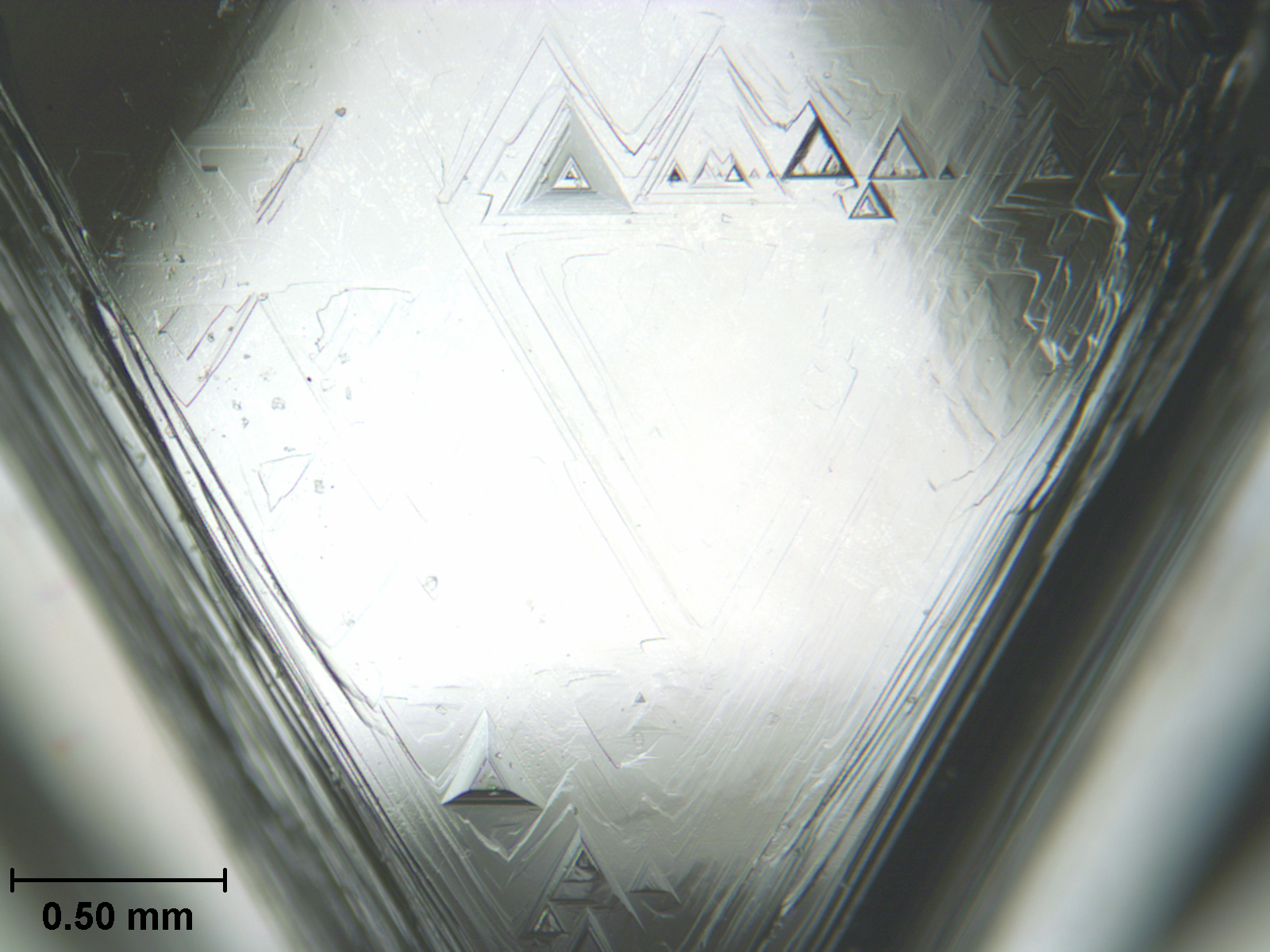 One face of an octahedral uncut (rough) diamond, including scale. Note the trigons on the diamond surface. The diamond is 0.9 carats, white (approximately GIA 'E' grade), with no significant internal inclusions. Taken on a Leitz Laborlux 12 Pol polarizing transmitted light microscope, using a Diagnostic Instruments Inc. SPOT Insight 2MP Color Mosaic digital camera.